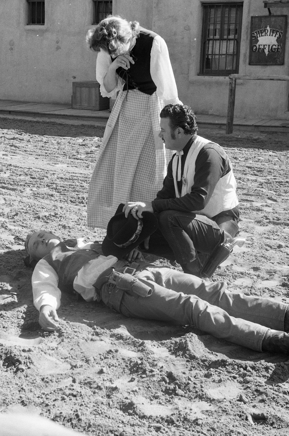 Three actors in an outdoor shooting and death scenario at Corriganville Movie Ranch, California, 1963 Other information Photo by George Garrigues